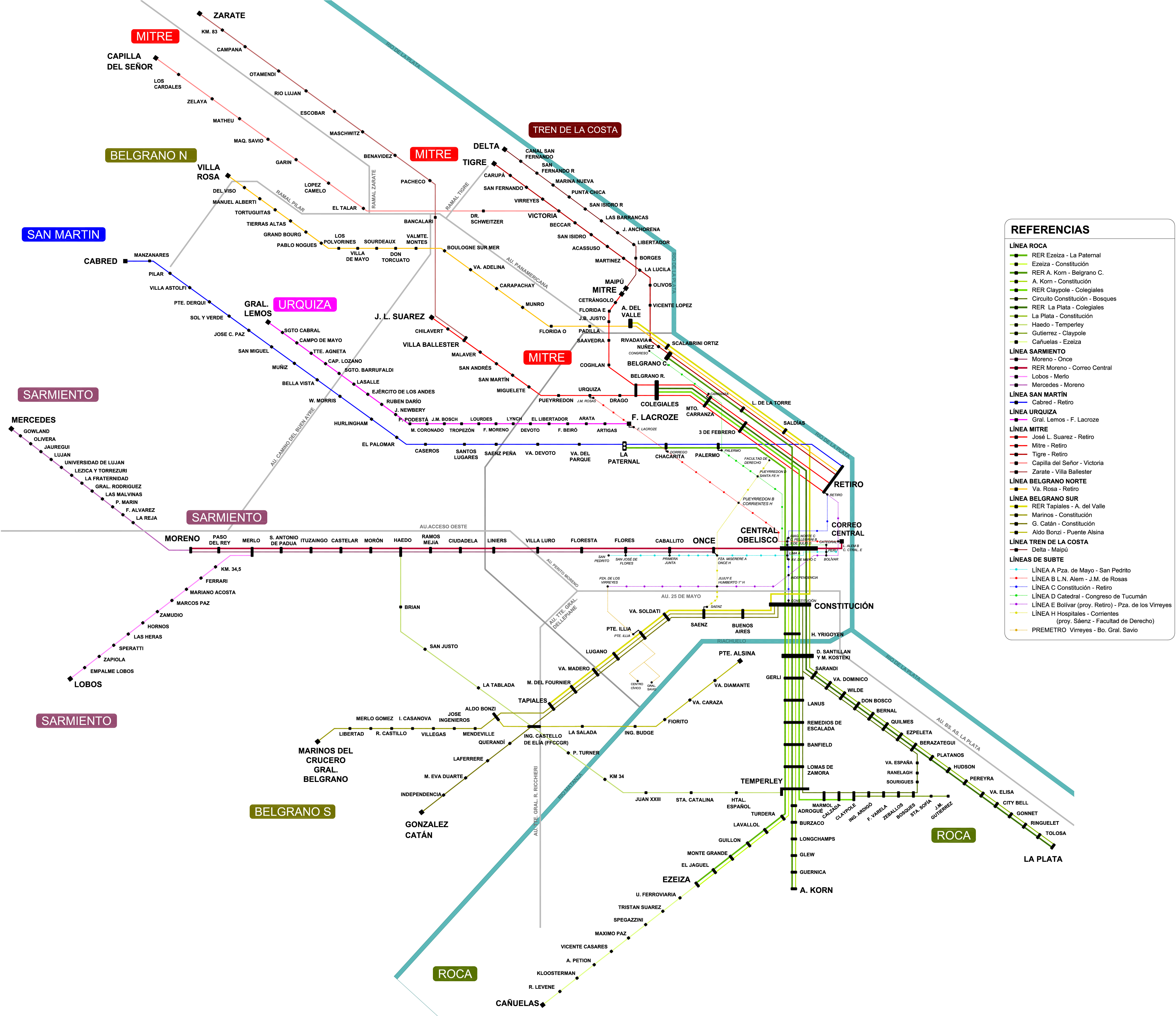 The Buenos Aires commuter rail with the RER tunnels complete.